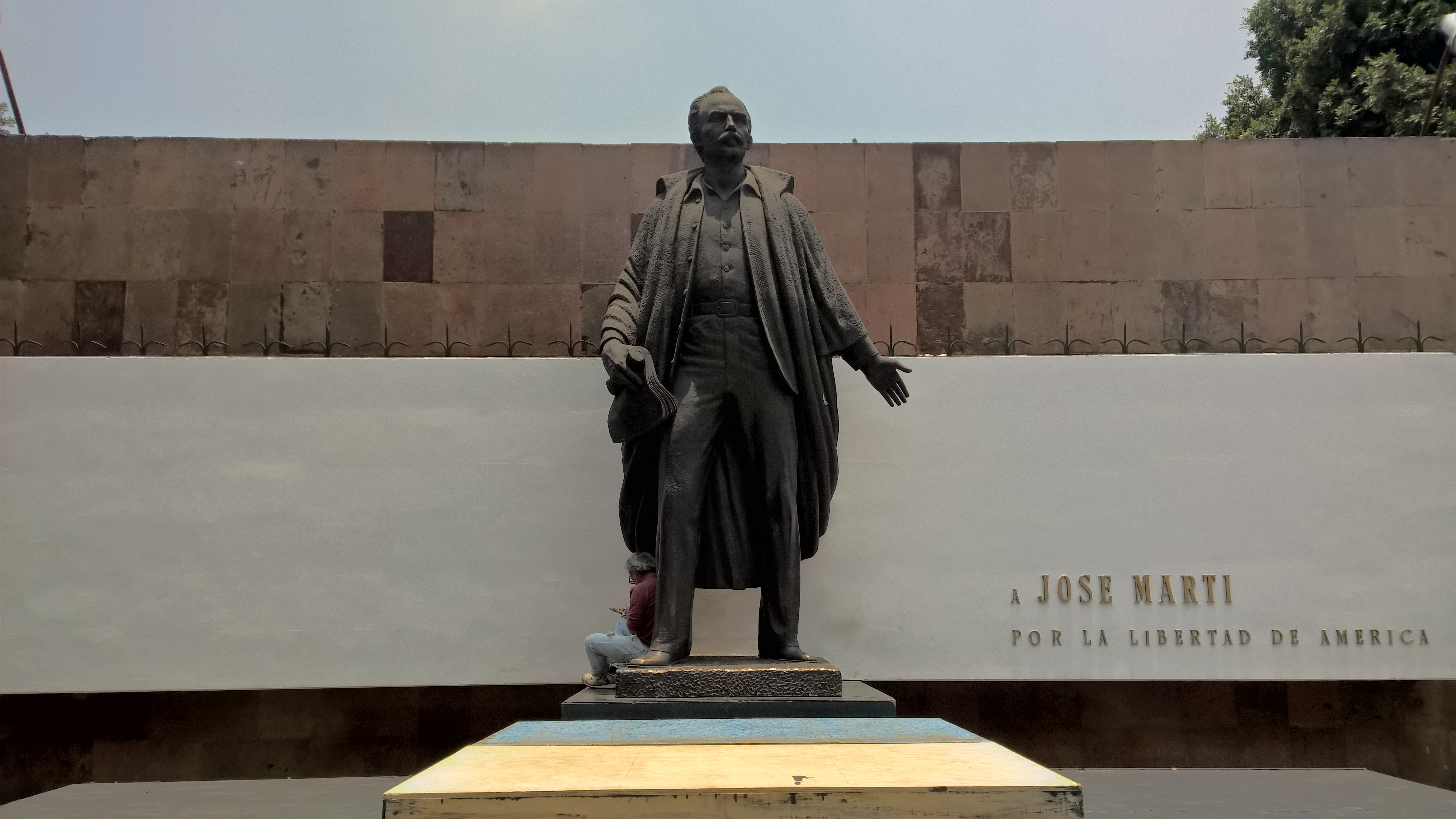 Jose Marti monument, Mexico City